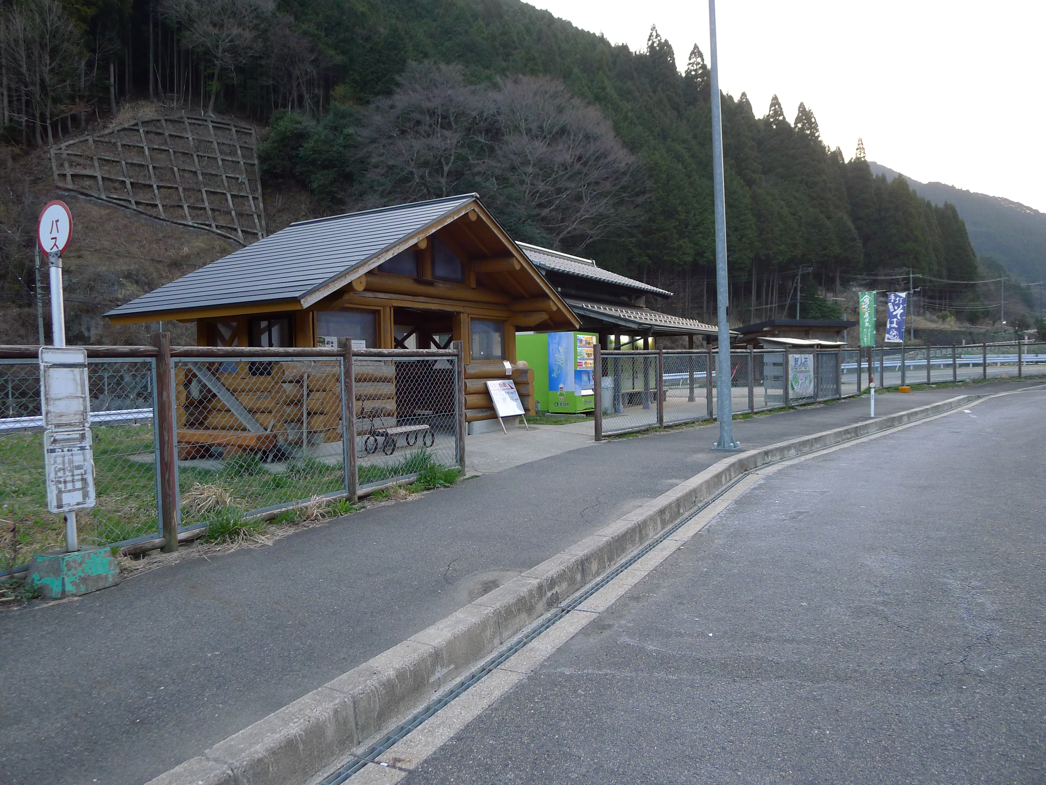 Fukuhara Parking Area and Fukuhara Bus Stop on the Tottori Expressway southbound line in Chizu Town, Tottori Prefecture, Japan